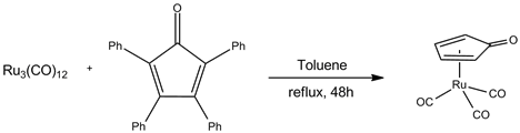 Preparation of the Shvo catalyst using cyclopentadienone and triruthenium dodecacarbonyl.